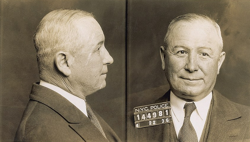 Mug shot of Italian-American mobster Johnny "Papa Johnny" Torrio, in the immediate aftermath of his 1936 arrest for tax evasion.